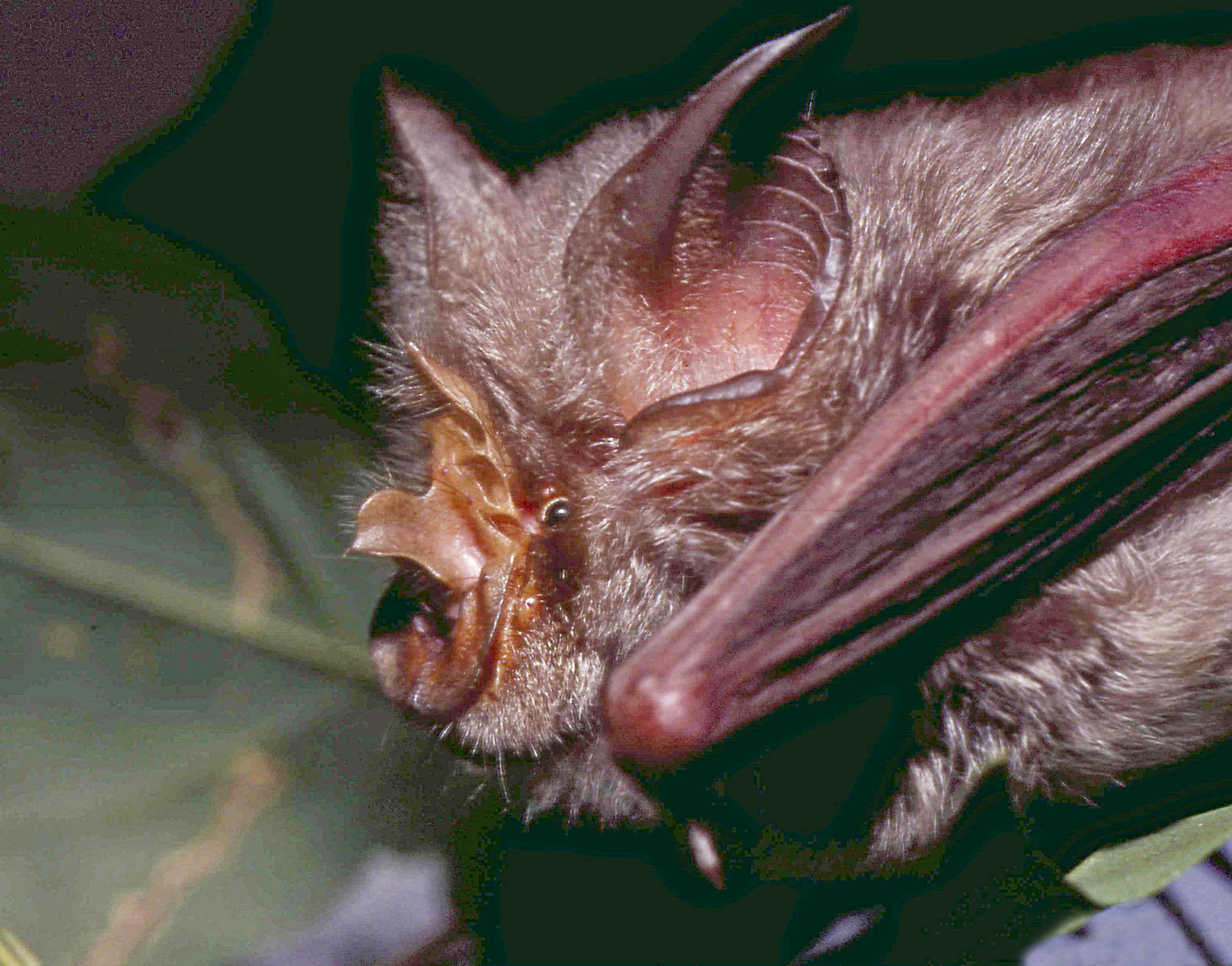 Adult Rüppell's horshoe bat, wild specimen, photographed near Limpopo River, Limpopo Province, South Africa